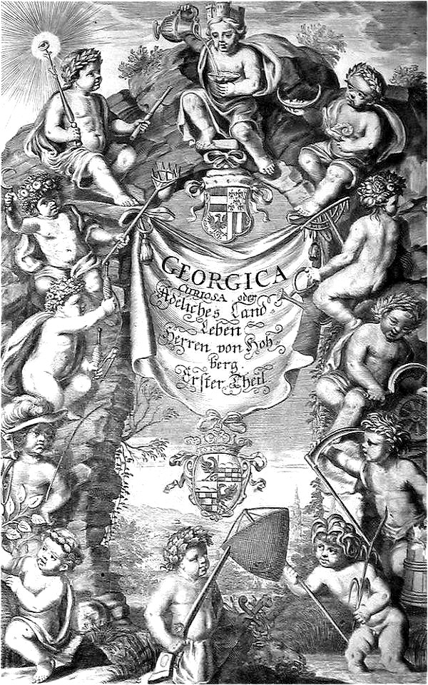 Wolfgang Helmhardt von Hohberg: "Georgica curiosa", instructions for agriculture and housekeeping, part 1. Title-page. Copper engraving.